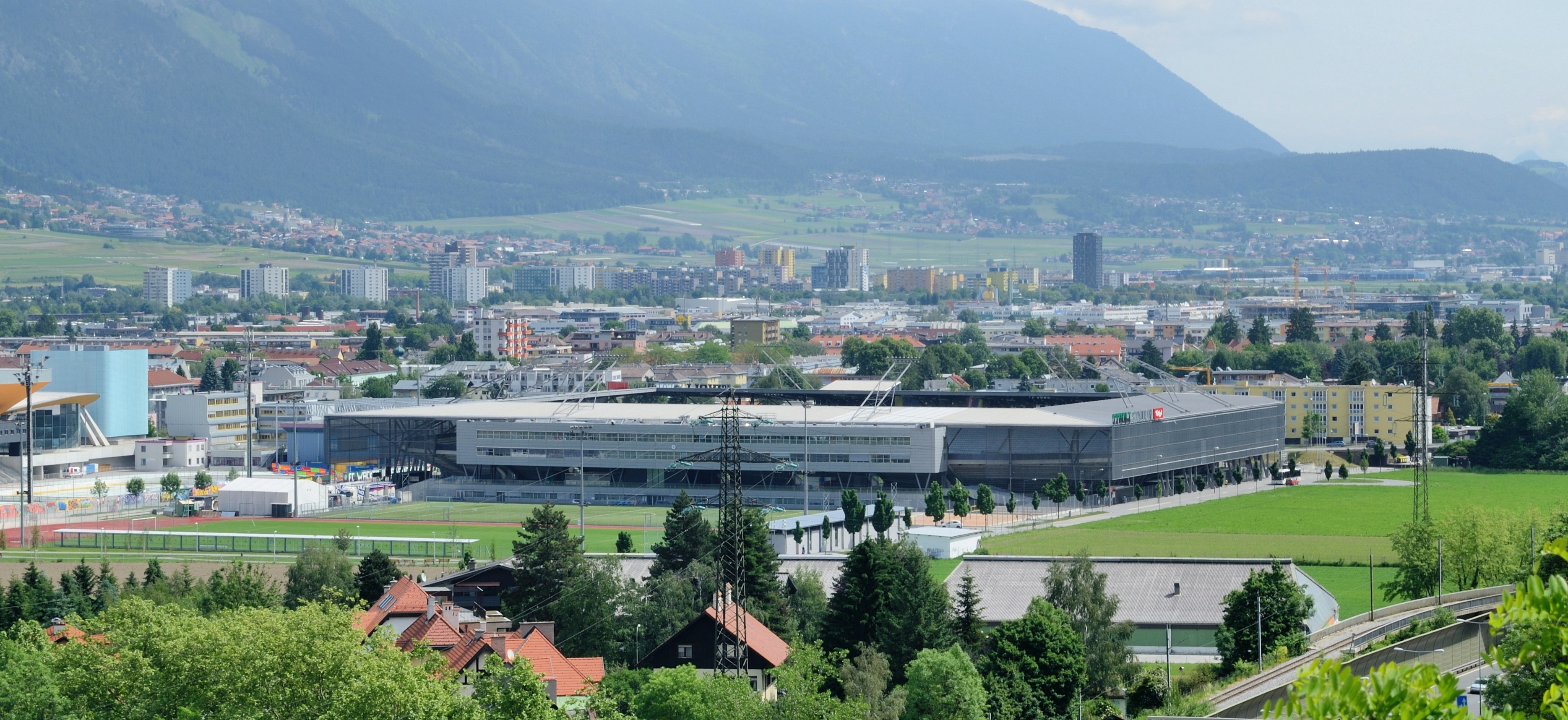 Innsbruck: Tivoli stadium